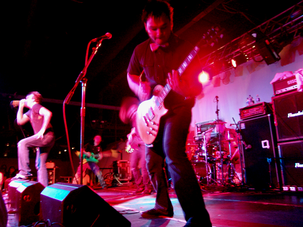 Travis Miguel, rhythm guitarist of Atreyu, performing live.